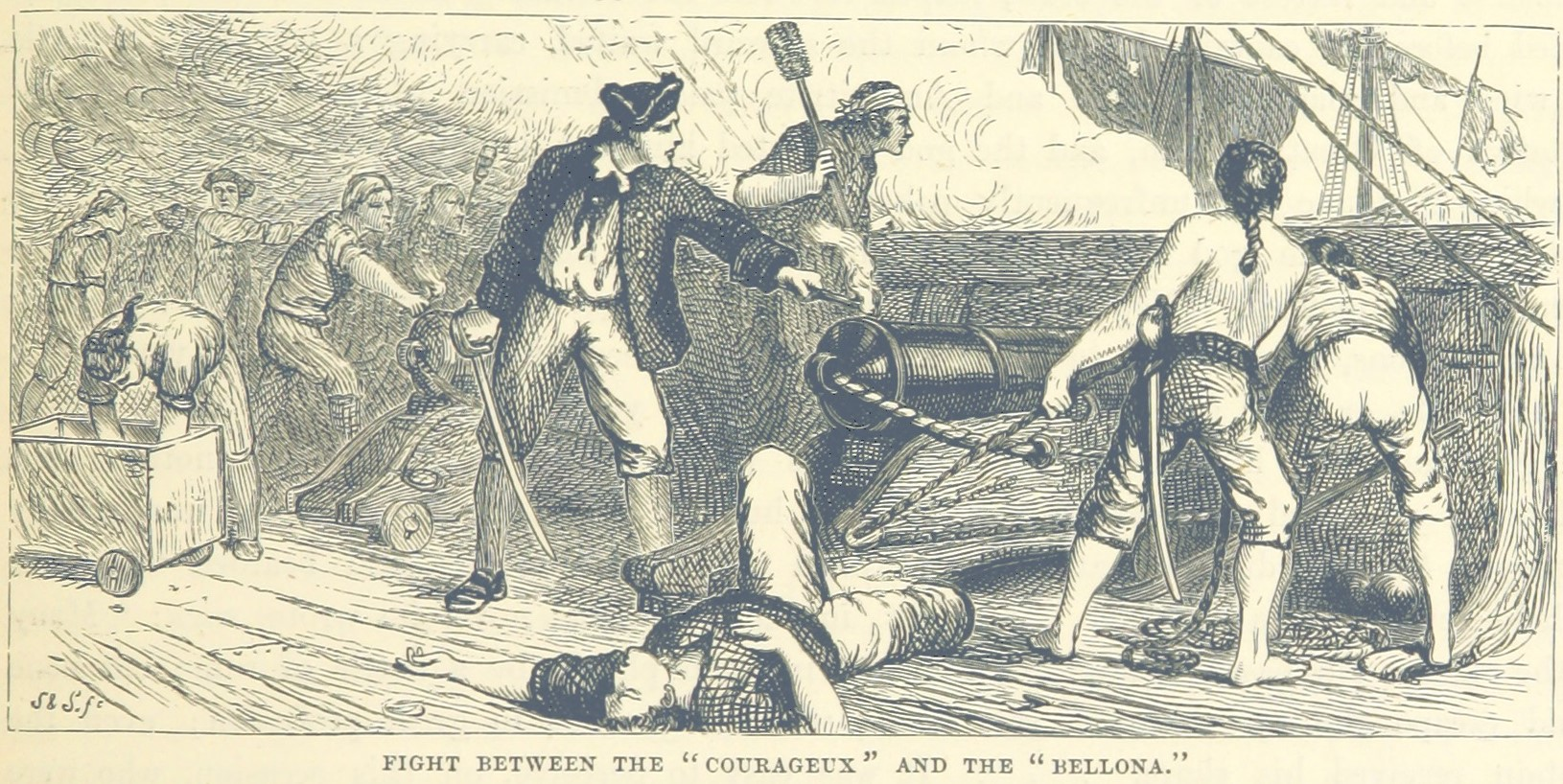 During the Battle of Cape Finisterre, HMS Bellona engages Courageux.